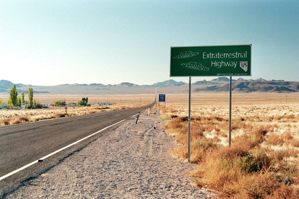 Highway 375 northbound, village of Rachel, Nevada